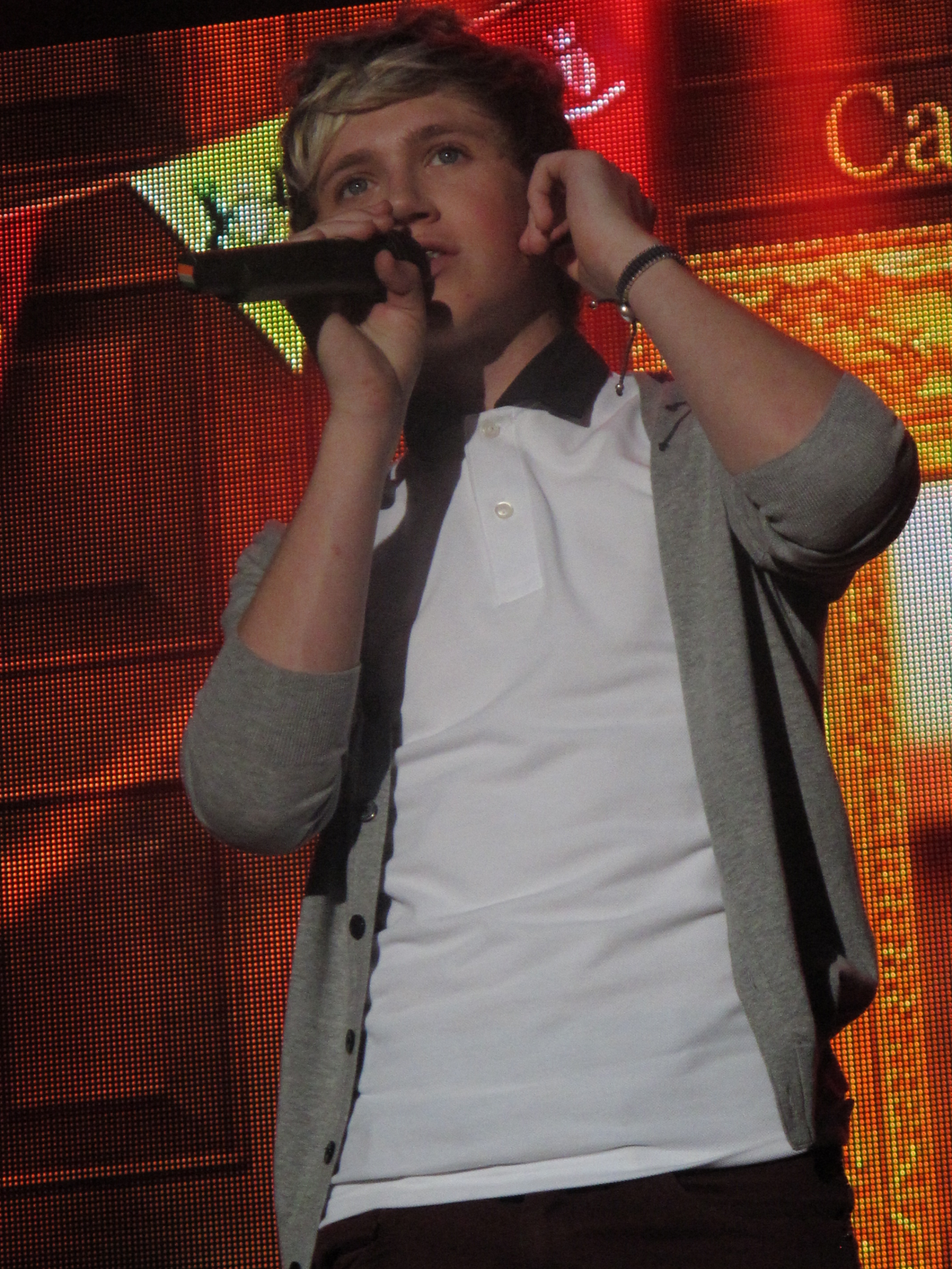 One Direction's Niall Horan.